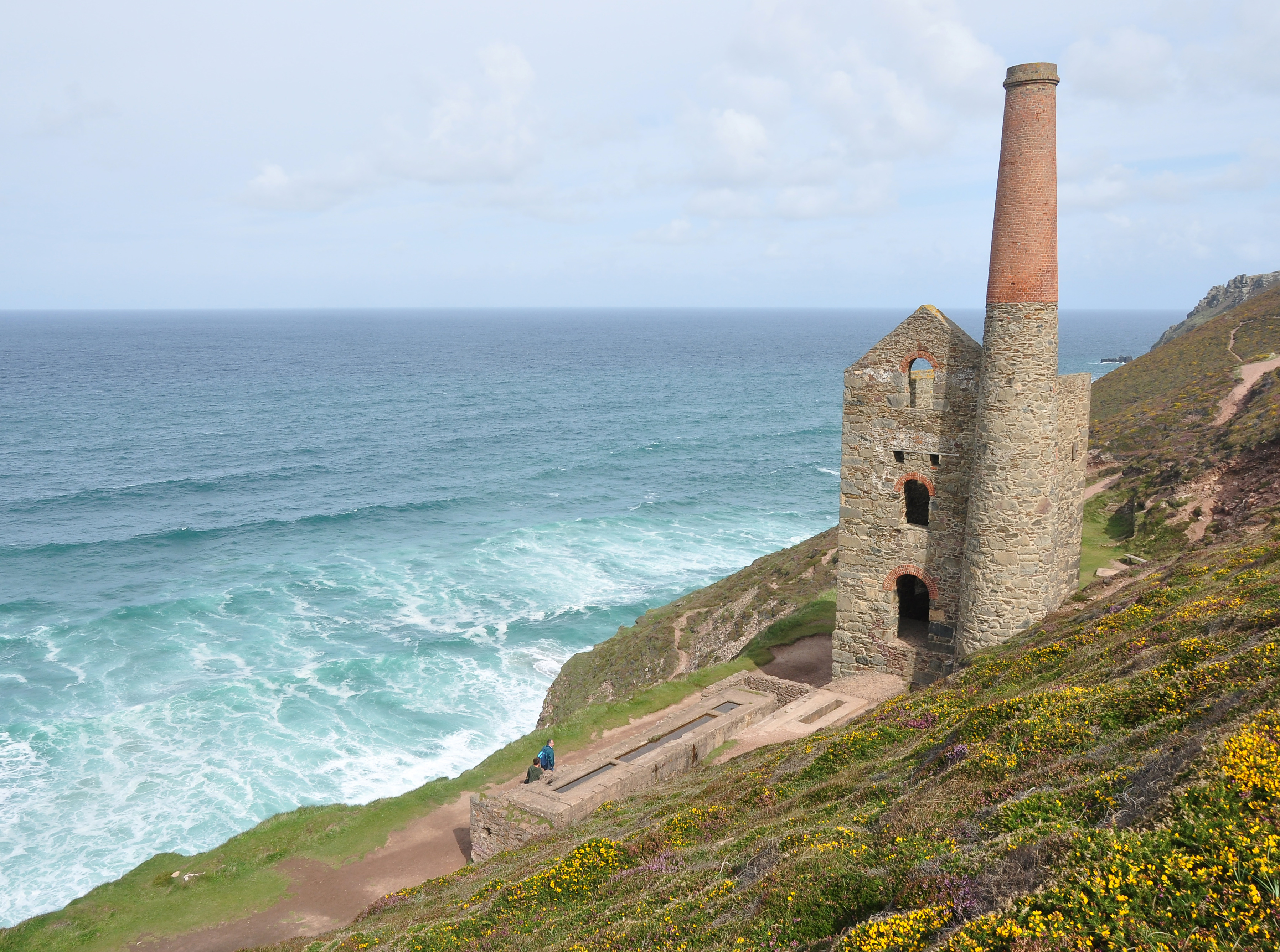 The Towanroath pumping house, at Wheal Coates, near St Agnes, Cornwall. The South West Coast Path passes the engine house.